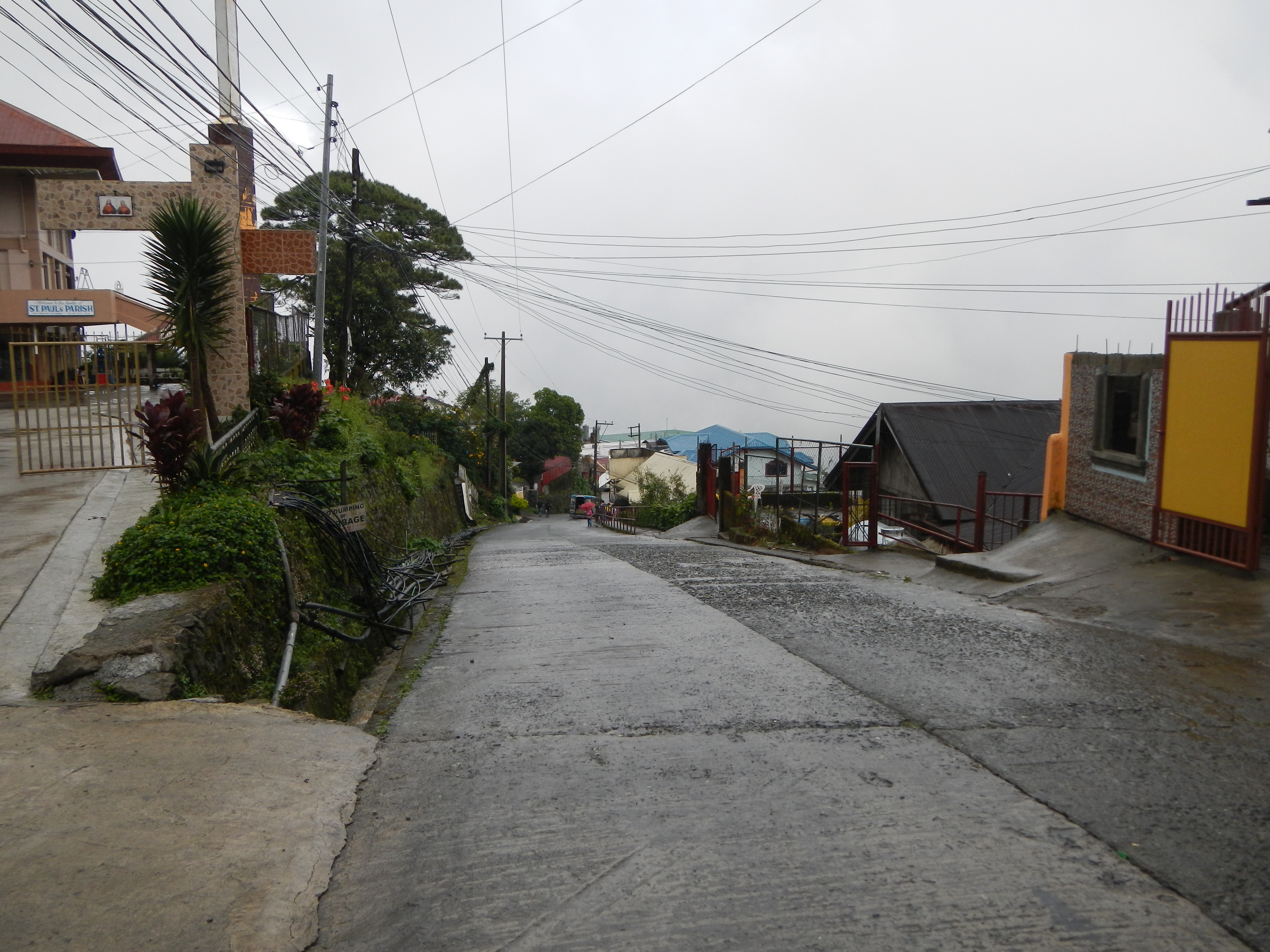 Upload Wizard photos of - the - Tuba Town Proper, Centro, Poblacion, - Conversion of Saint Paul Parish Church of Tuba (F-1975), Tuba 2603 Benguet Titular: Conversion of St. Paul, January 25 Parish Priest: Fr. Victor Munar Saint Paul Parish Church of Tuba,[1] [2] [3] Poblacion, Tuba, Benguet[4] (first class municipality in the province of Benguet,[5] Philippines politically subdivided into 13 barangays) in he Central Cordillera Mountain Range [6]) - beside the Saint Paul Children's School, Tuba Central School, DepED CAR, Tuba District, beside the Tuba Municipal Hall Complex - the Police Station.